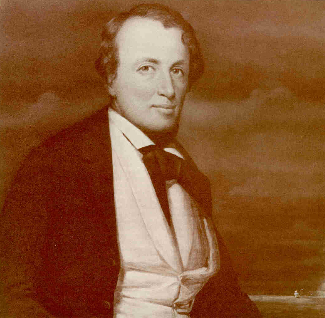 Portrait of Robert H. Waterman 1808-1884 Caption "Courtesy: Solano County Library; Captain Waterman, Founder of Fairfield"